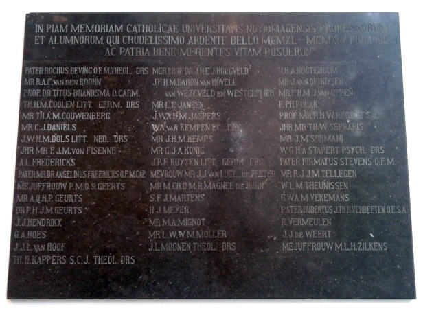 Plaque in memory of the victims of World War II in the Aula of the Radboud University, Comeniuslaan 2, Nijmegen.